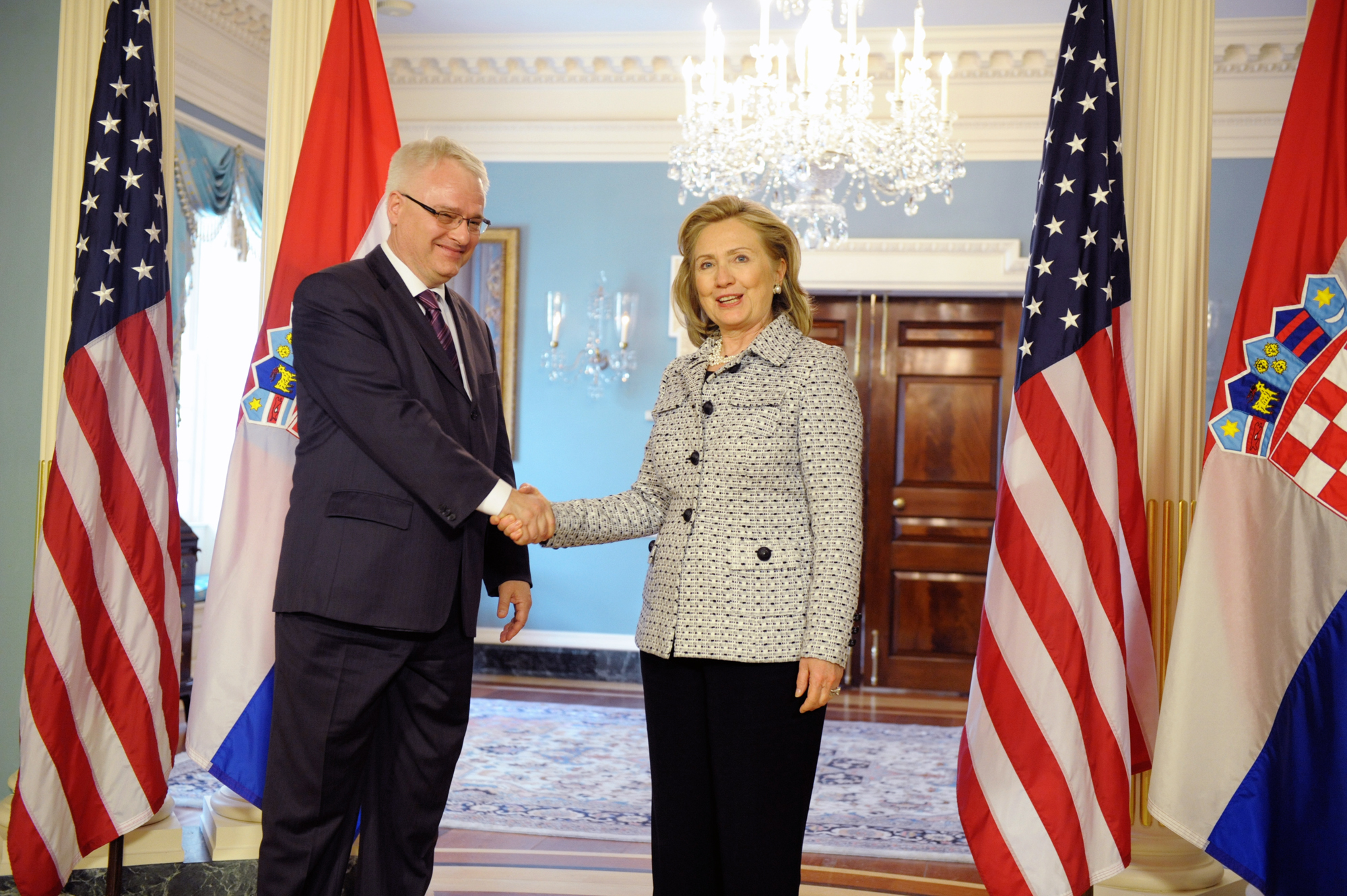 U.S. Secretary of State Hillary Rodham Clinton shakes hands with Croatian President Ivo Josipovic after their bilateral meeting, at the U.S. Department of State in Washington, D.C., on May 3, 2011. [State Department photo/ Public Domain]